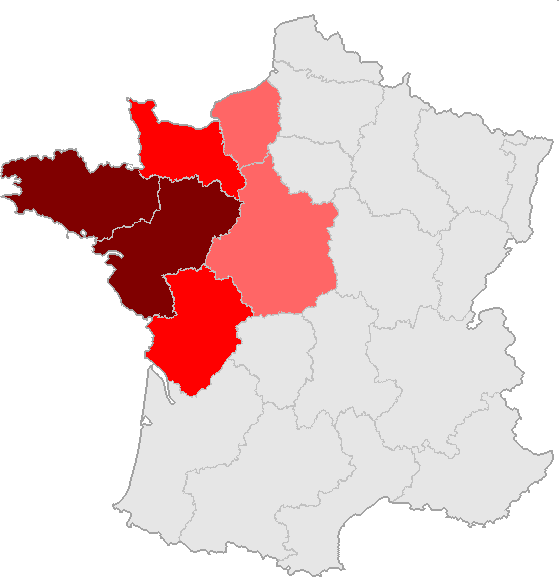 Different definitions for the french "Grand Ouest".